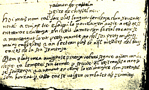 Oimais no·m cal far plus long'atendensa by Peire de Chasselnou in troubadour paper MS a1, now in the Biblioteca Estense in Modena. Made in Italy in 1589. Cropped version of :Image:Peire_de_Castelnou.